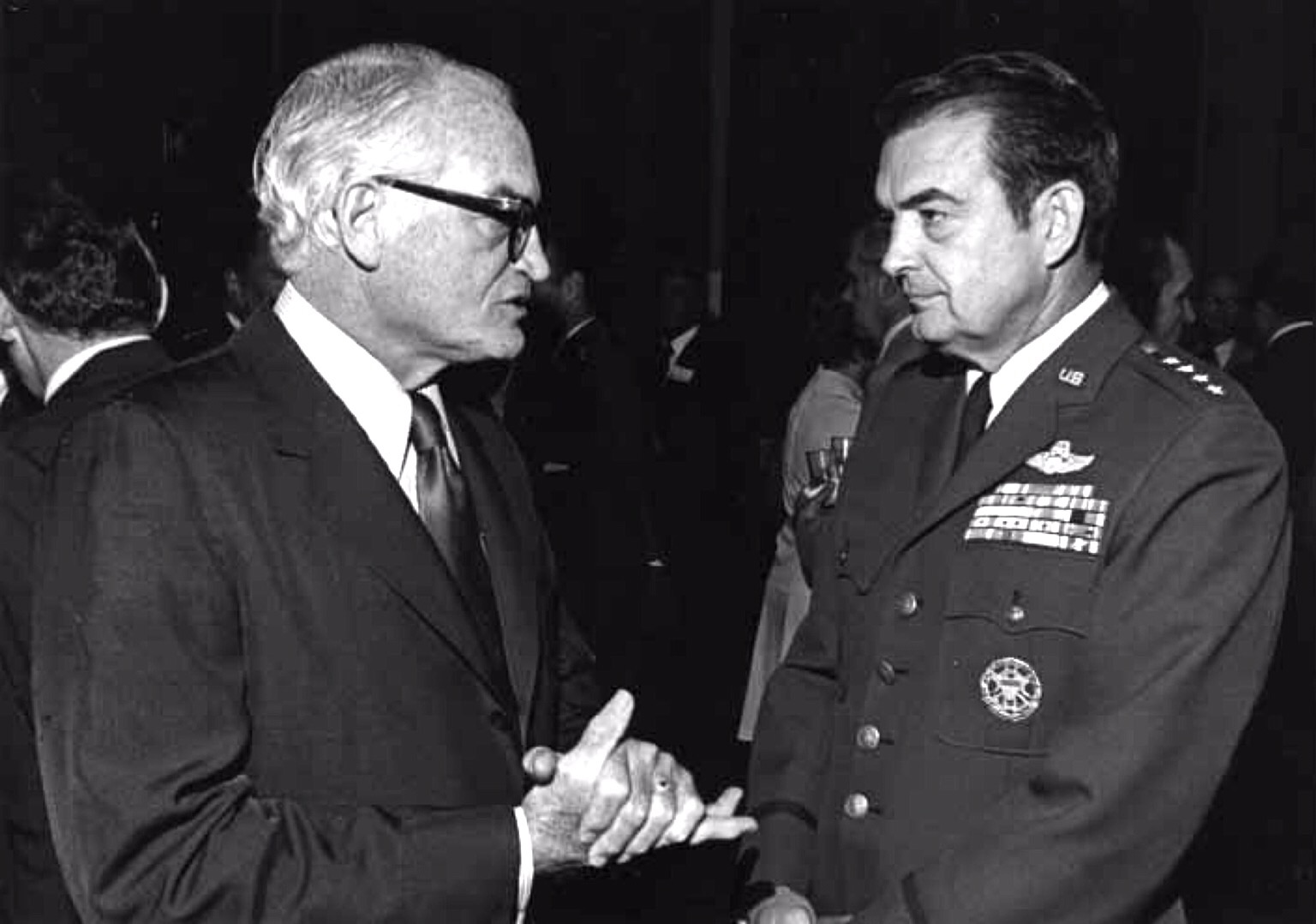 United States Air Force Chief of Staff General David C. Jones and United States Senator from Arizona Barry Goldwater at The Capitol Hill in 1975.